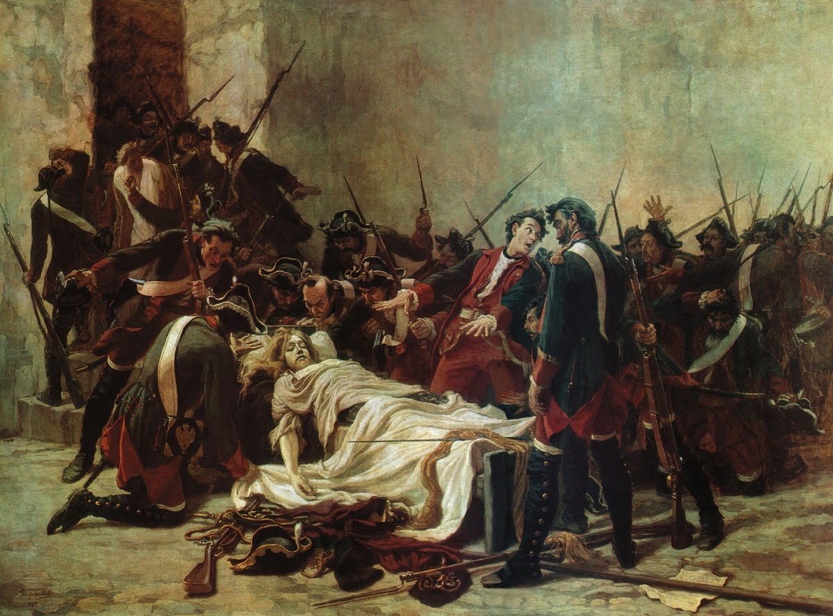 Vasily Mirovich Standing over the Body of Ivan VI at Schlusselburg Fortress